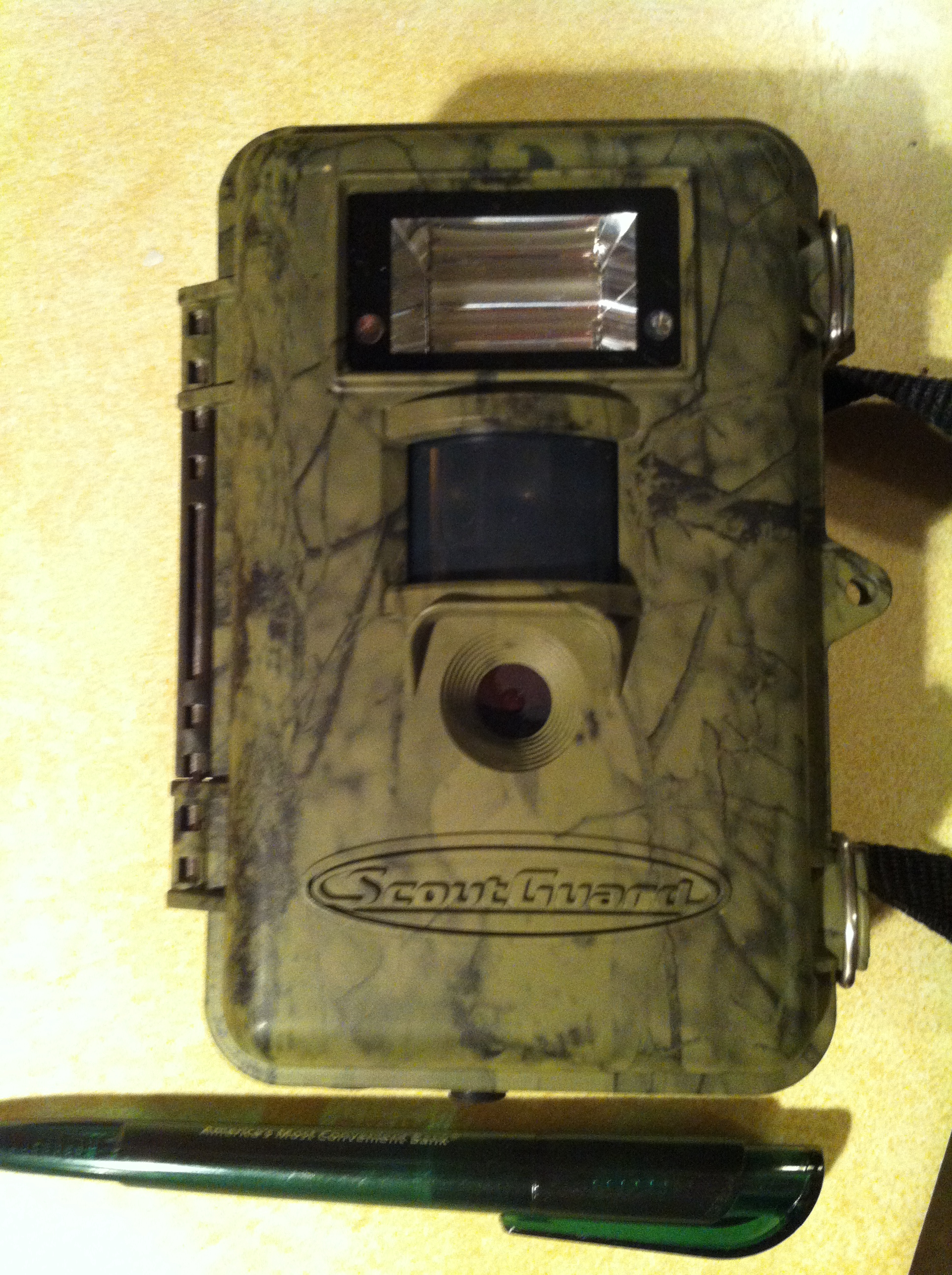 Scout Guard 565T-8M remote camera